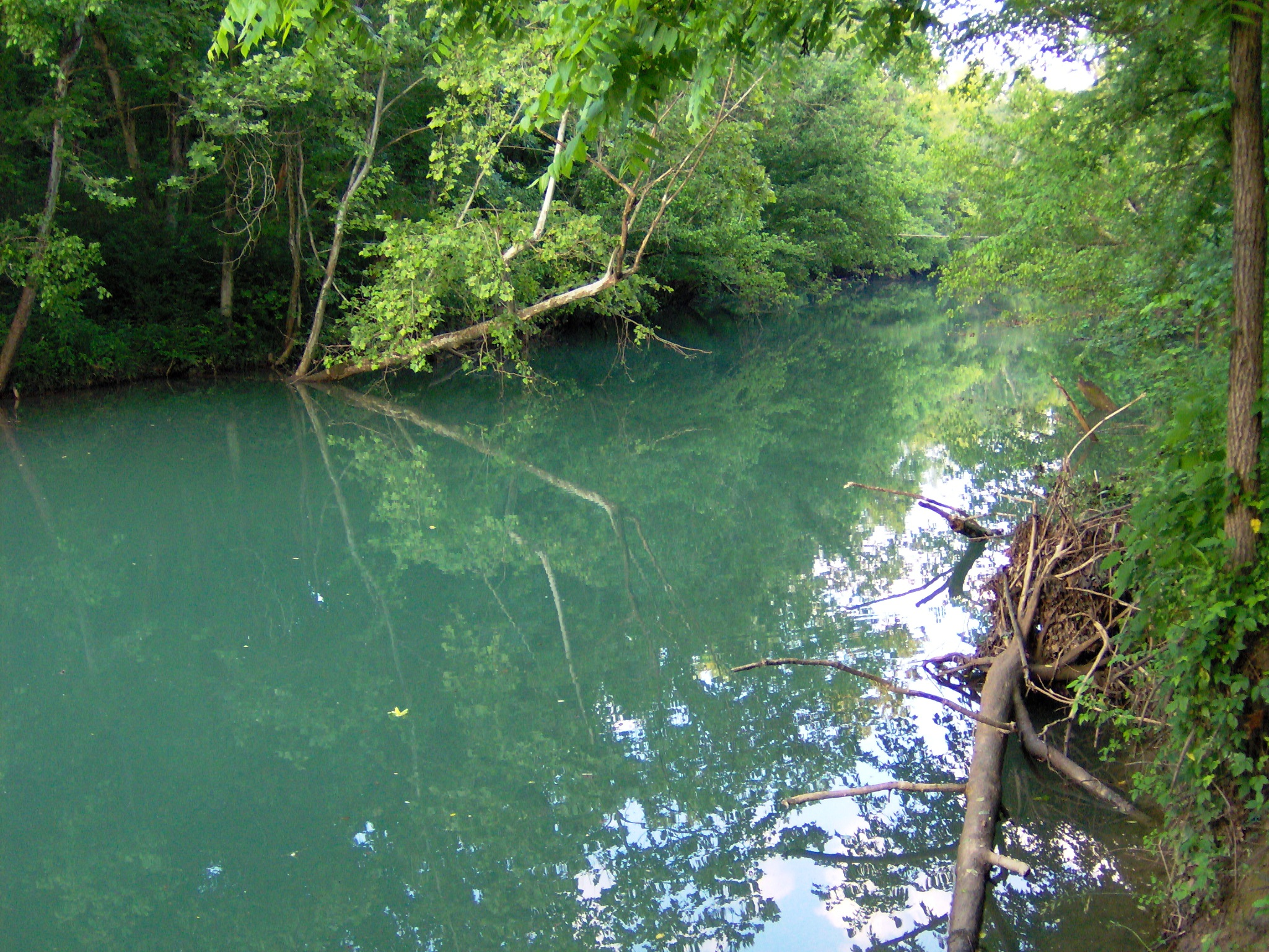 The Wolf River in Fentress County, Tennessee, USA. This stretch of the river is between Pall Mall and the Wolf River community, near the Sgt. York State Historic Park. A trail maintained by the park passes along this stretch of the river.